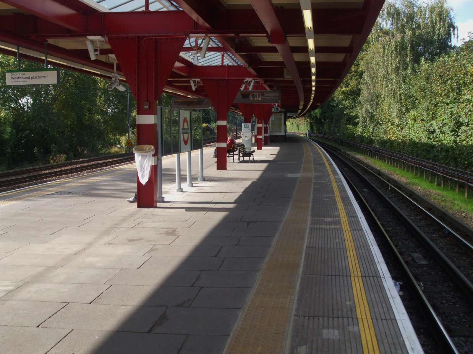 Upminster Bridge tube station eastbound platform looking west